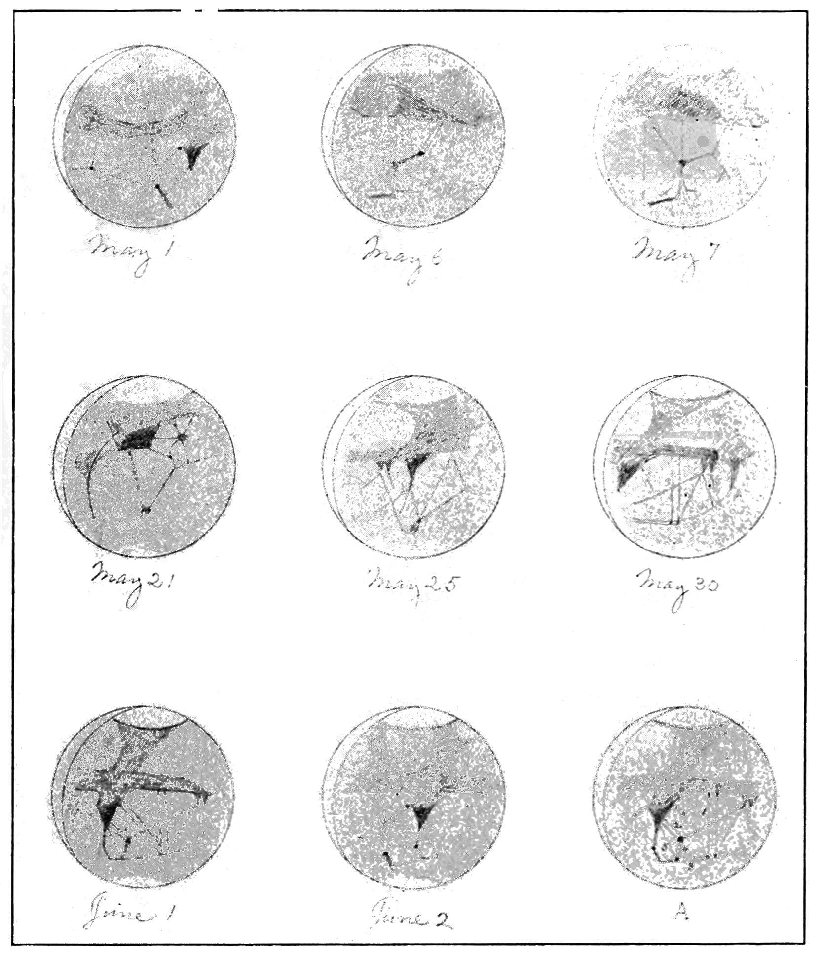 Mars as seen in the Lowell reflector